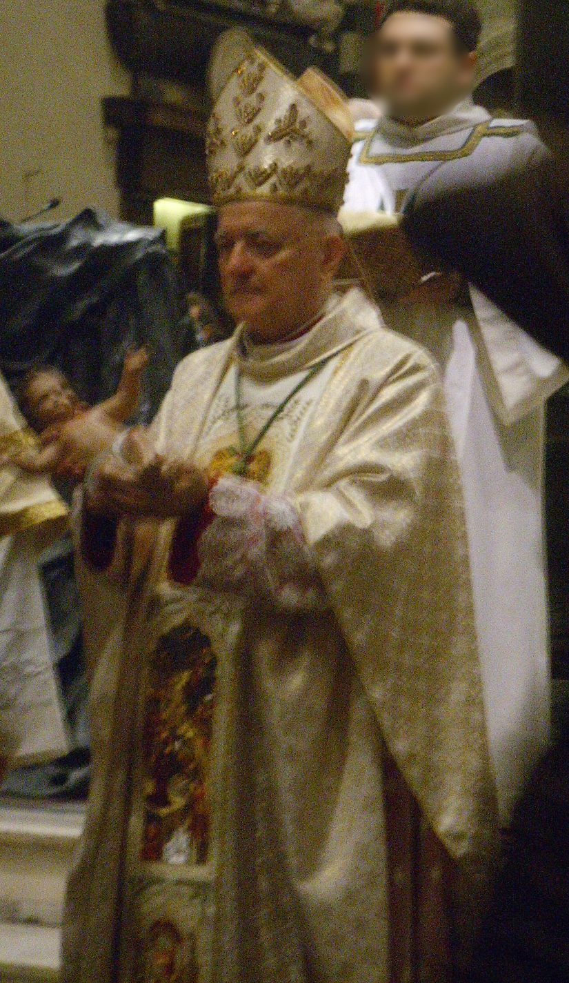 Gastone Simoni, bishop of Prato